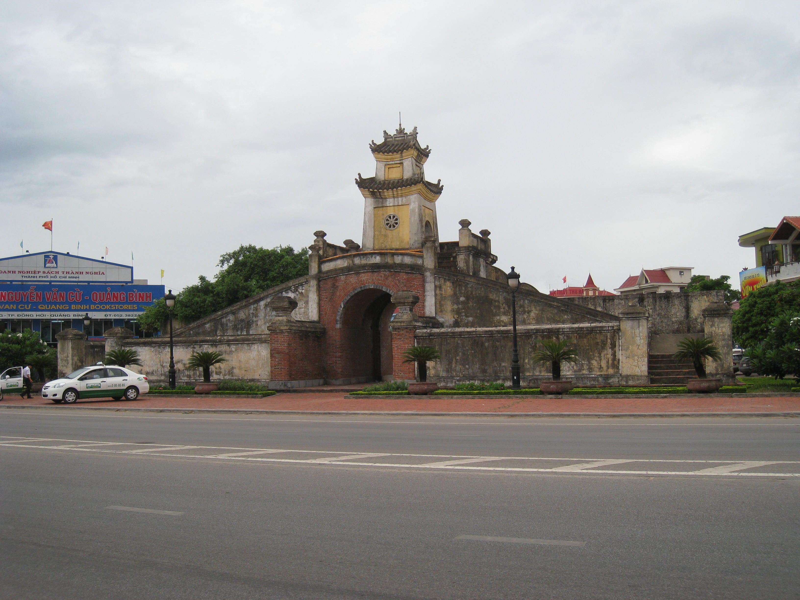 Quang Binh Gate, part of Dong Hoi Citadel, Vietnam